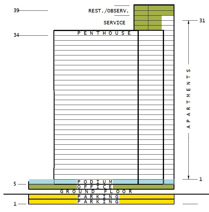 Diagram showing program distribution of floors. Autocad building section-diagram